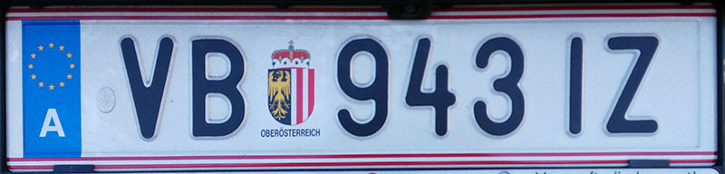 Austrian registration plate. Code VB